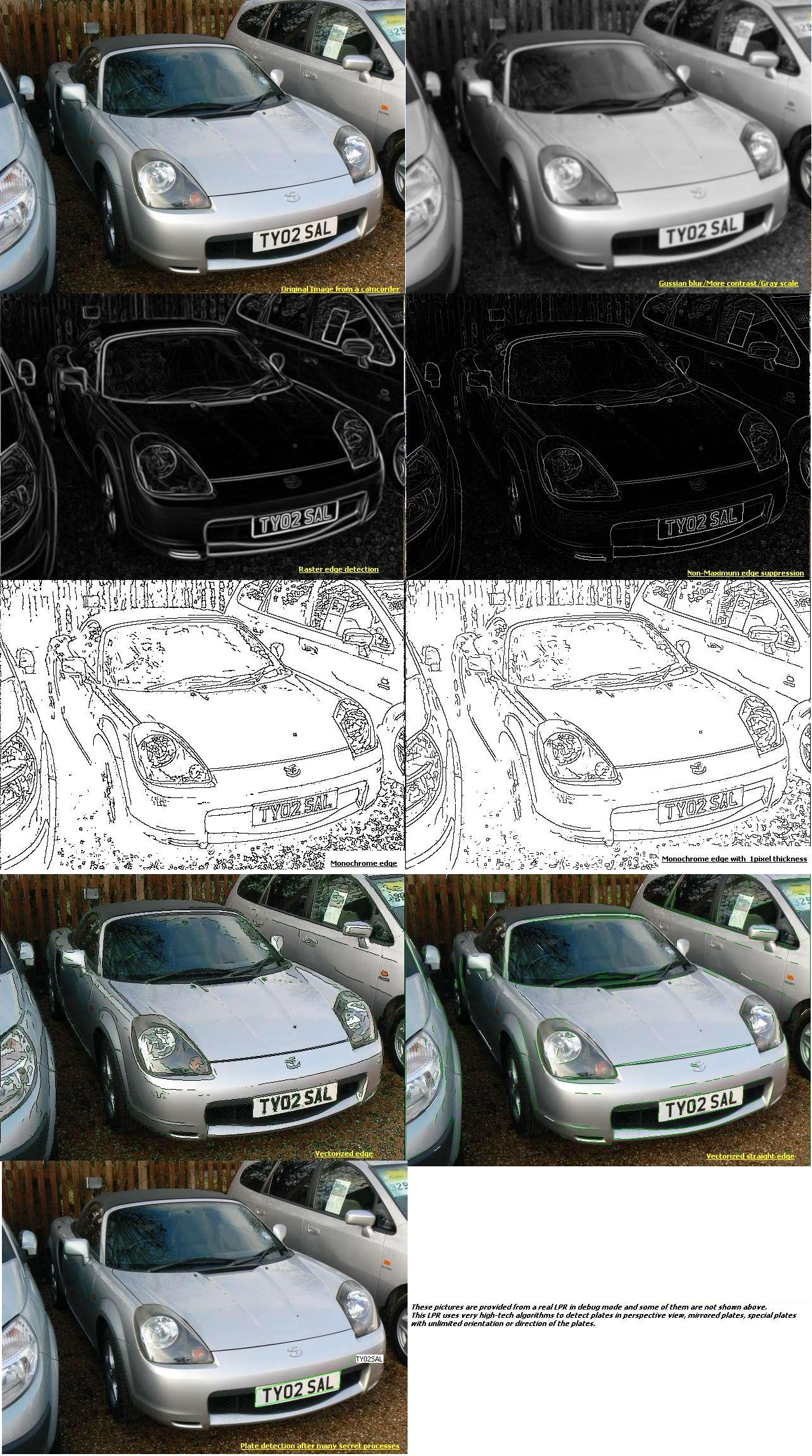 LPR device debugging process from real images